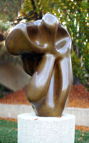 description: "Evocation of a Form: Human, Lunar, Spectral" by Hans Jean Arp — at the Hirshhorn Museum Sculpture Garden. photographer: Jeff Kubina photographer_url: [1] flickr_url: [2] taken:November 10, 2006